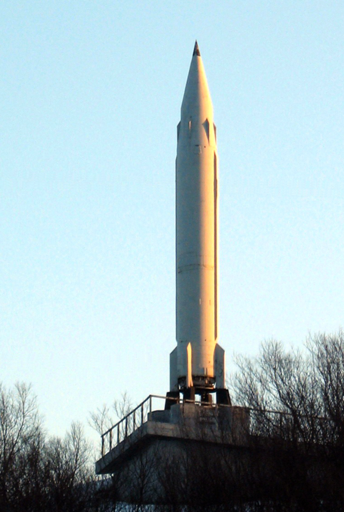 Monument to the R-13, the first armed submarine-launched ballistic missile, at Severomorsk naval base, Russia